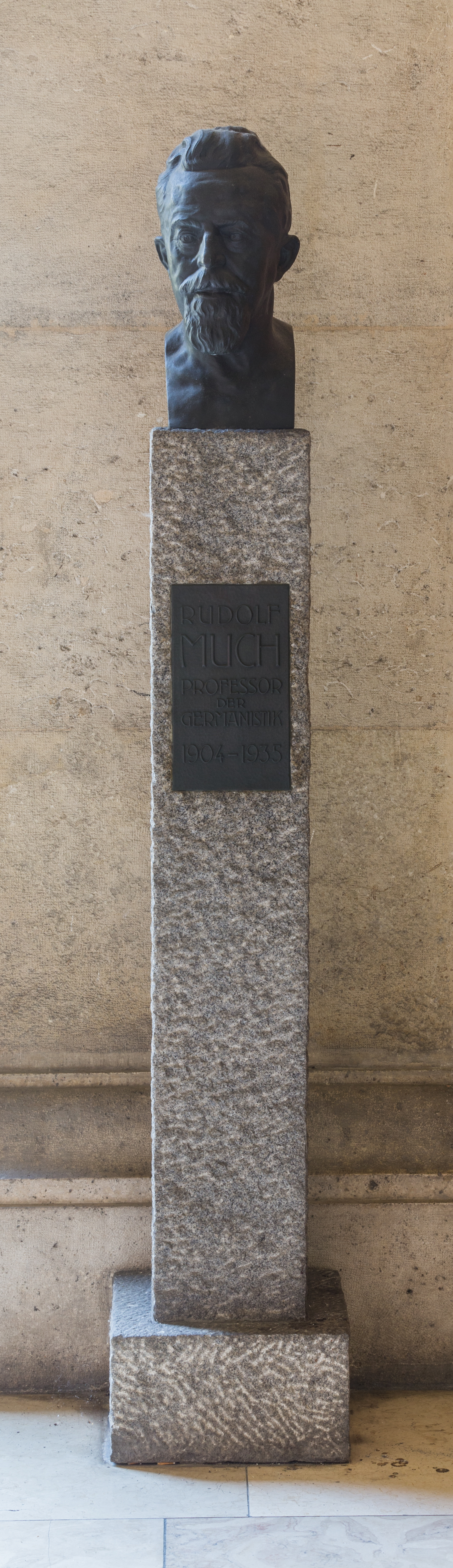 Rudolf Much (1862-1936), bust (dark bronze) in the Arkadenhof of the University of Vienna, (Maisel# 63). Artist: Franz Pixner (1912-1998), unveiled 1952